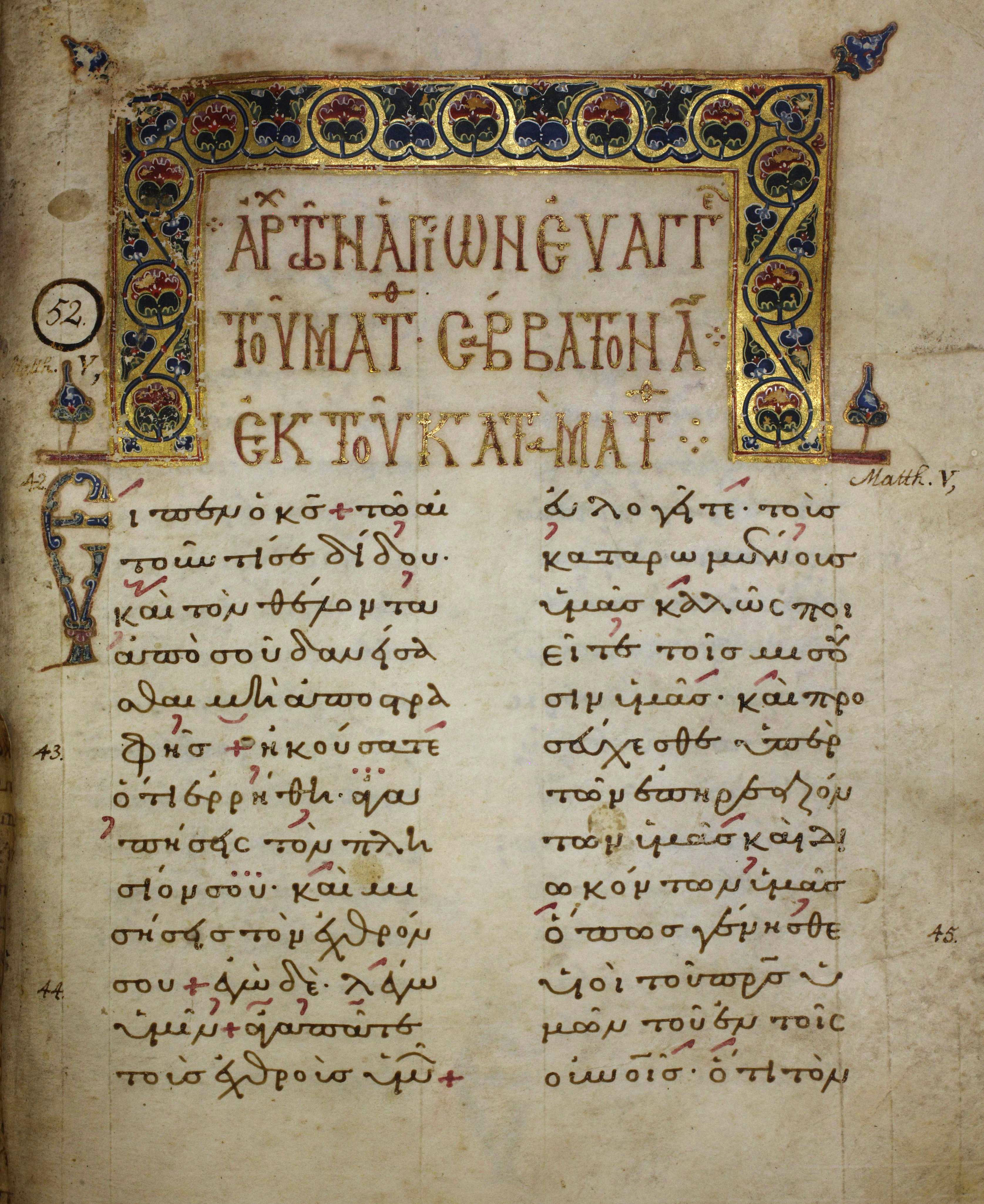 folio 51 recto with passage from the Gospel of Mathew